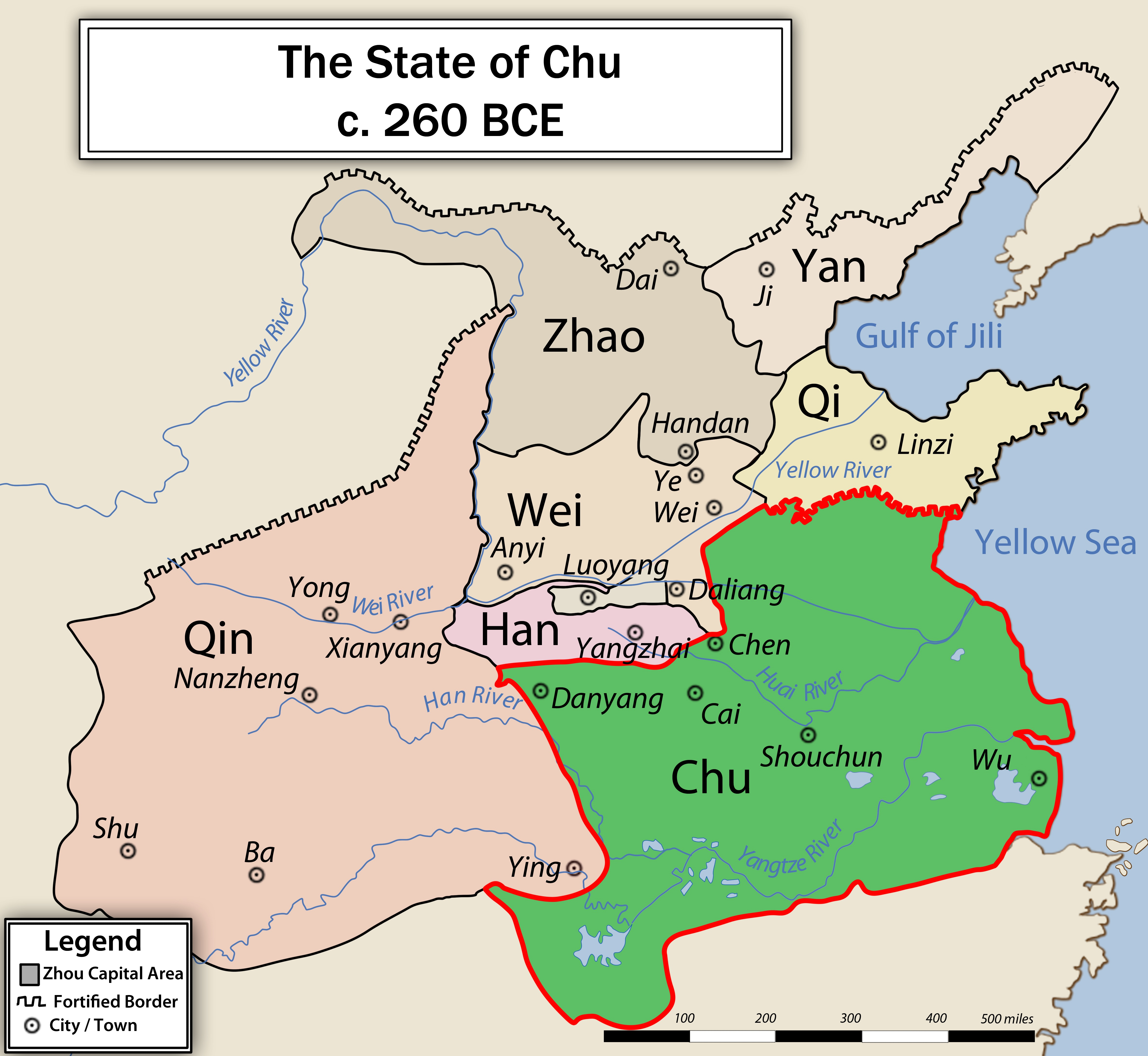 China Map, Chu State, 260BCE